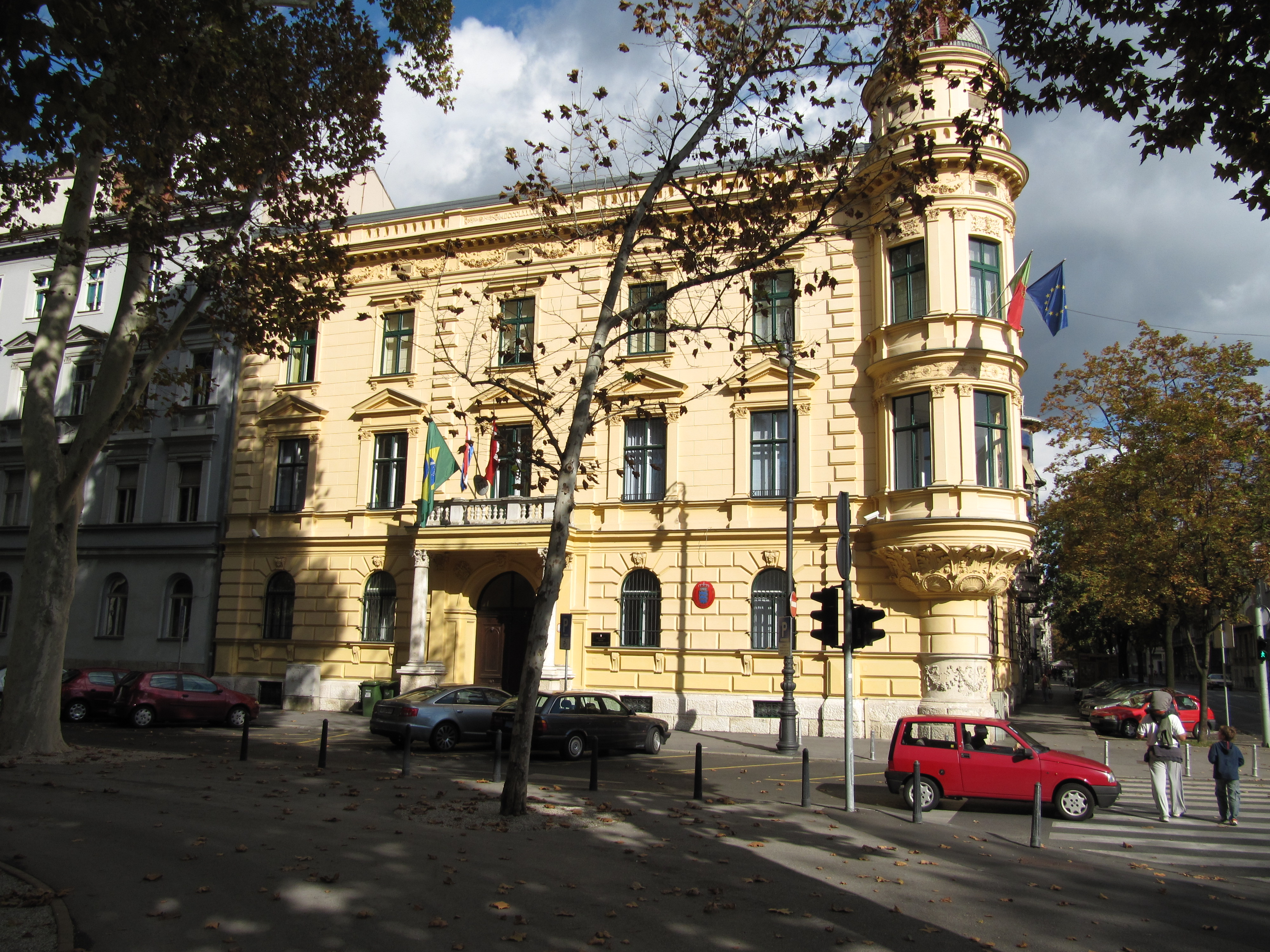 As of 2009, embassies of Brazil and Denmark in Croatia were located at 10 Nikola Šubić Zrinski Square, Zagreb.